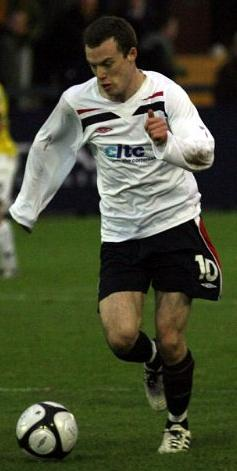 Hyde footballer Shaun Whalley